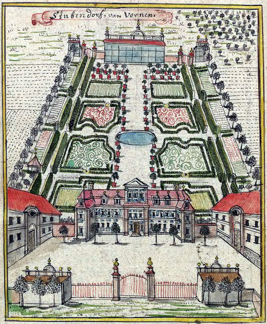 palace and park in Stubendorf (today Izbicko).